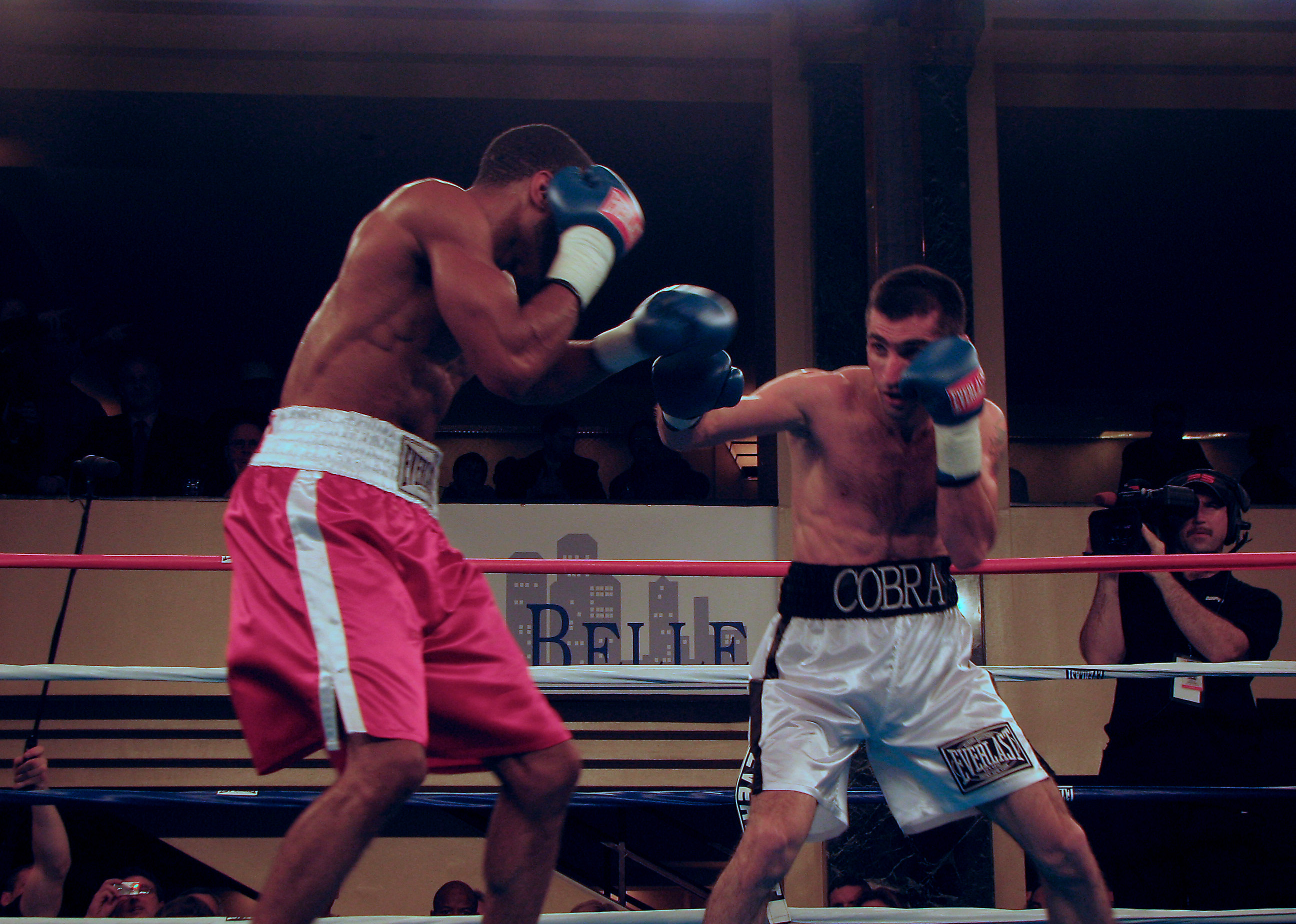 Koba Gogoladze throws a jab during his 12-round victory over Antonio Davis.